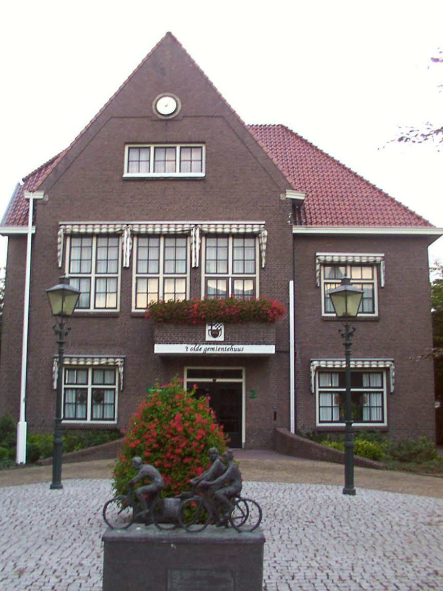 Former town hall of Nieuwleusen, Netherlands.